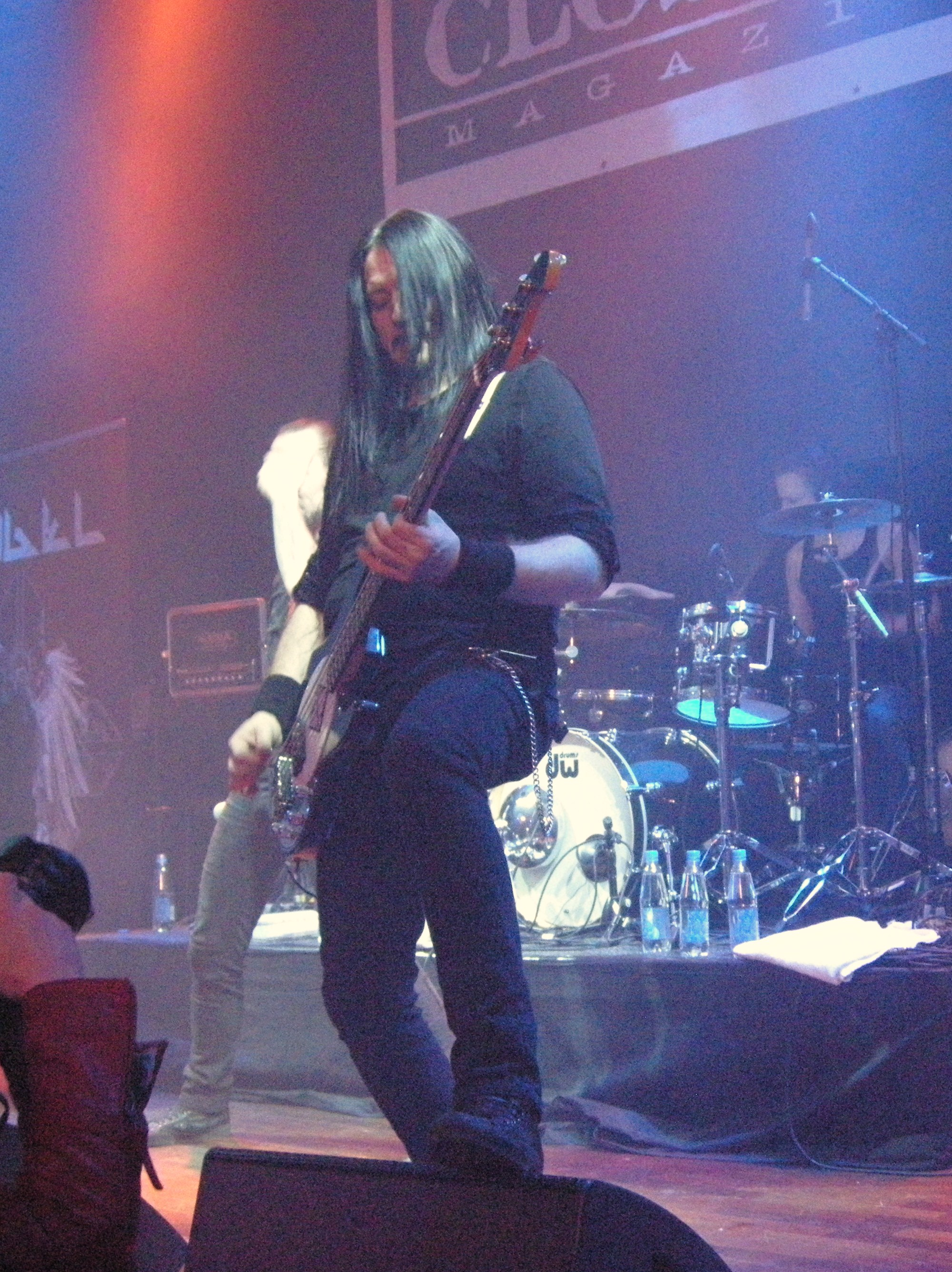 Steve Drennan, bass player in Swedish metal band Engel, at The Close-Up boat 2011